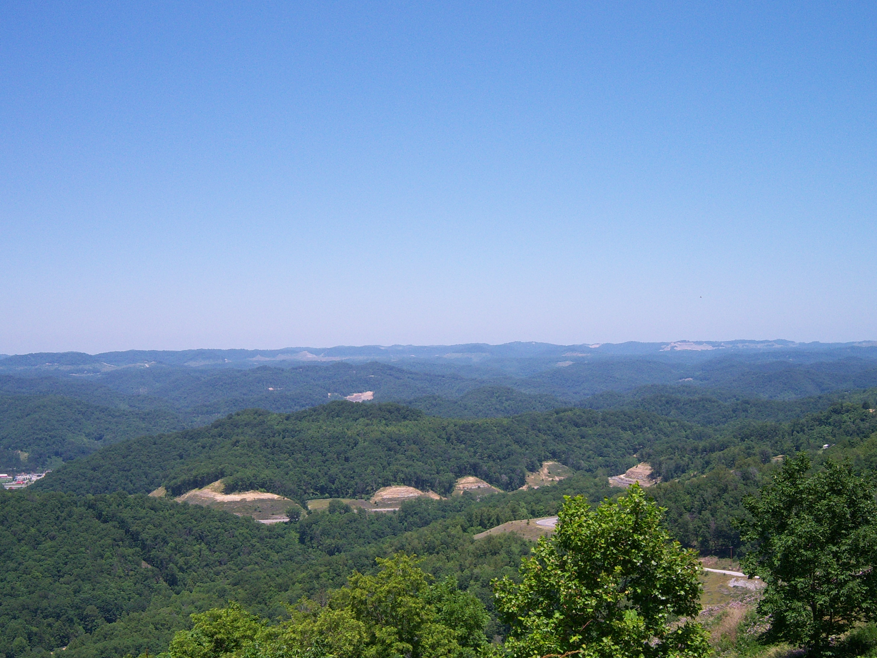 View from Pine Mountain near Whitesburg, Kentucky. panorama depuis Pine Mountain près de Whitesburg, Kentucky USA.